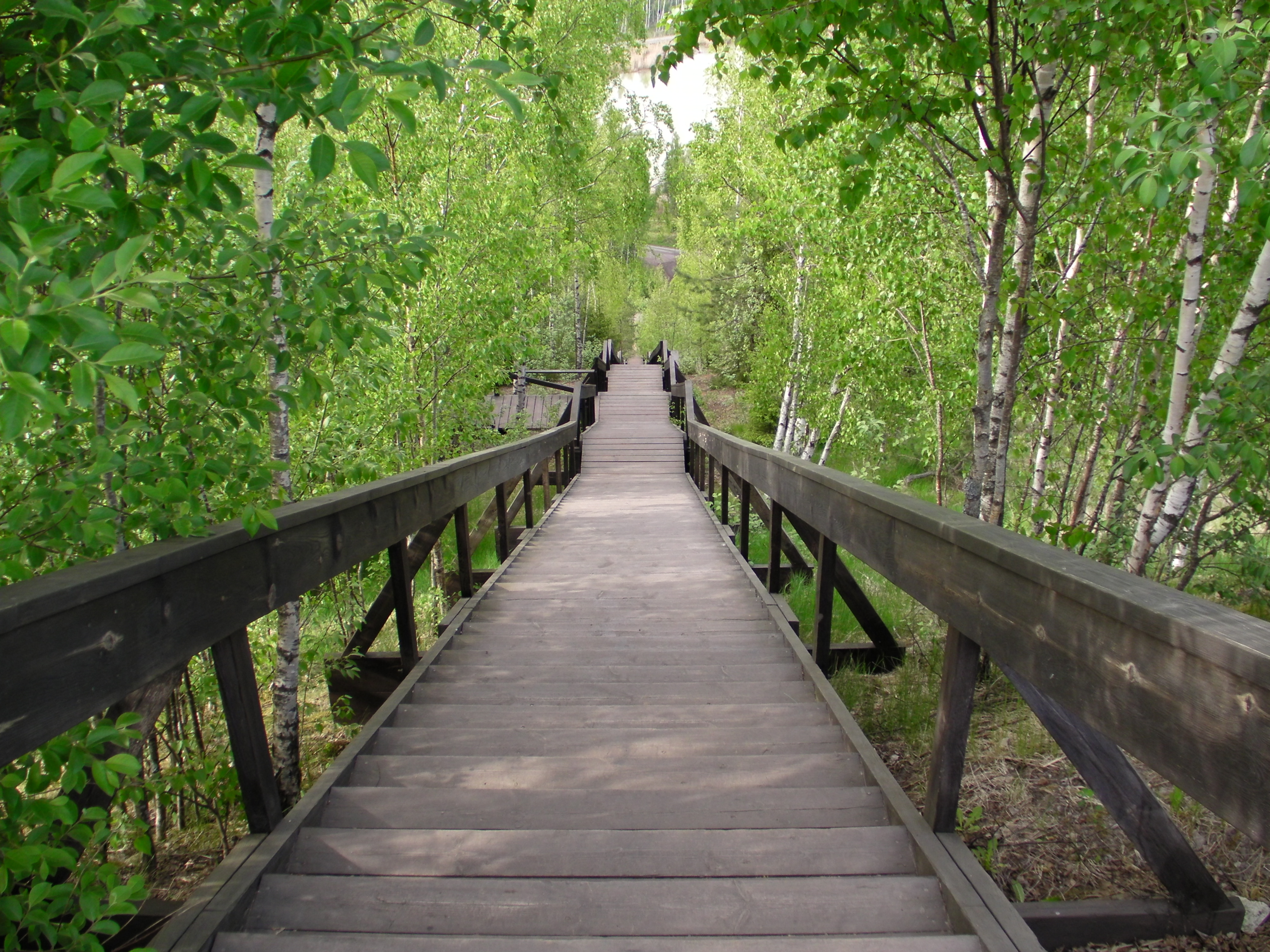 One of the longer wooden stairways in Sweden.